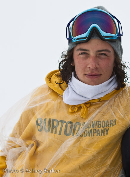 Mark McMorris by Camp of Champions